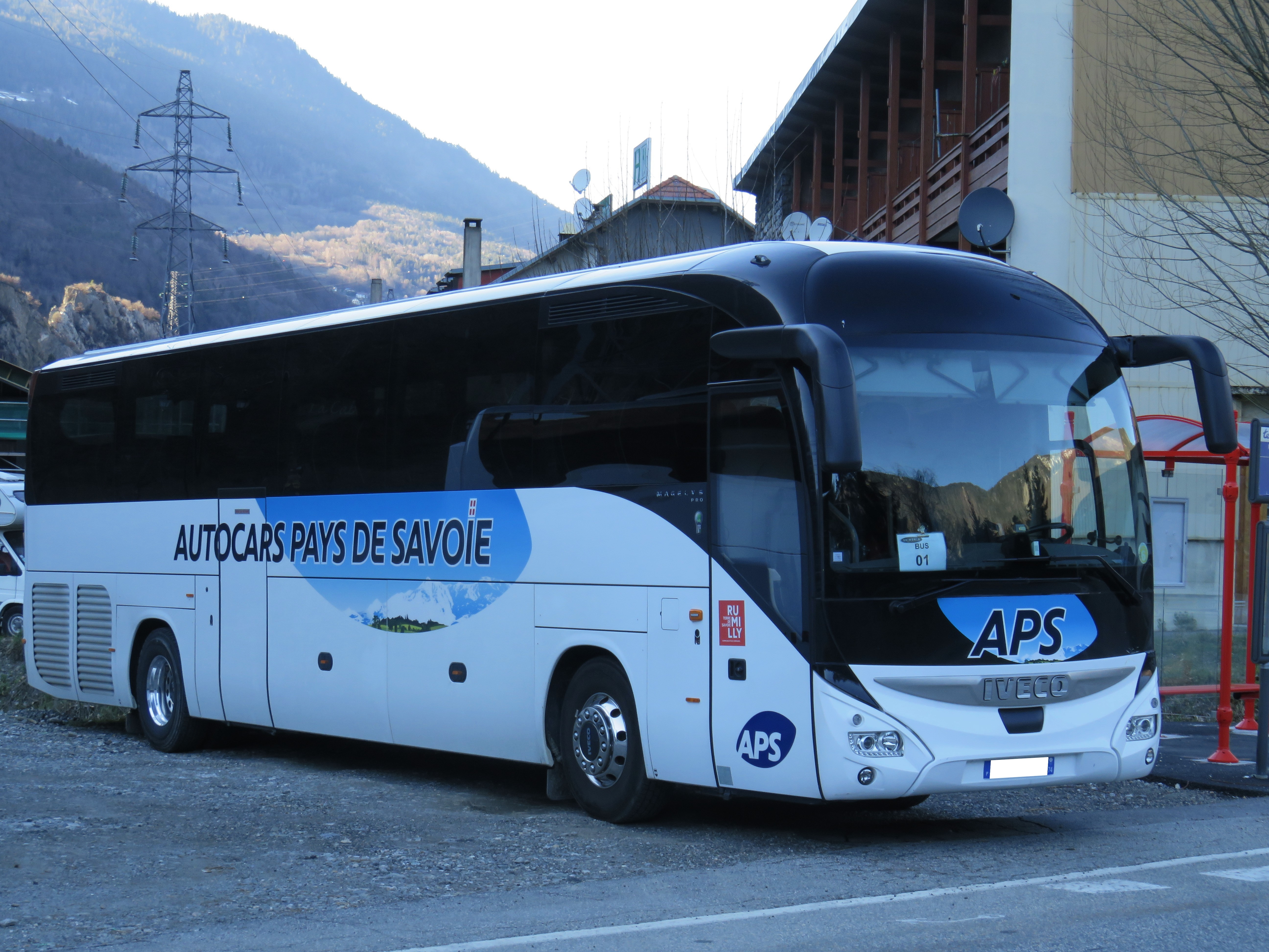 An Iveco Magelys (Autocars Pays de Savoie) parked in the D97 (Petit-Cœur-La-Léchère, France) on March 22, 2019.